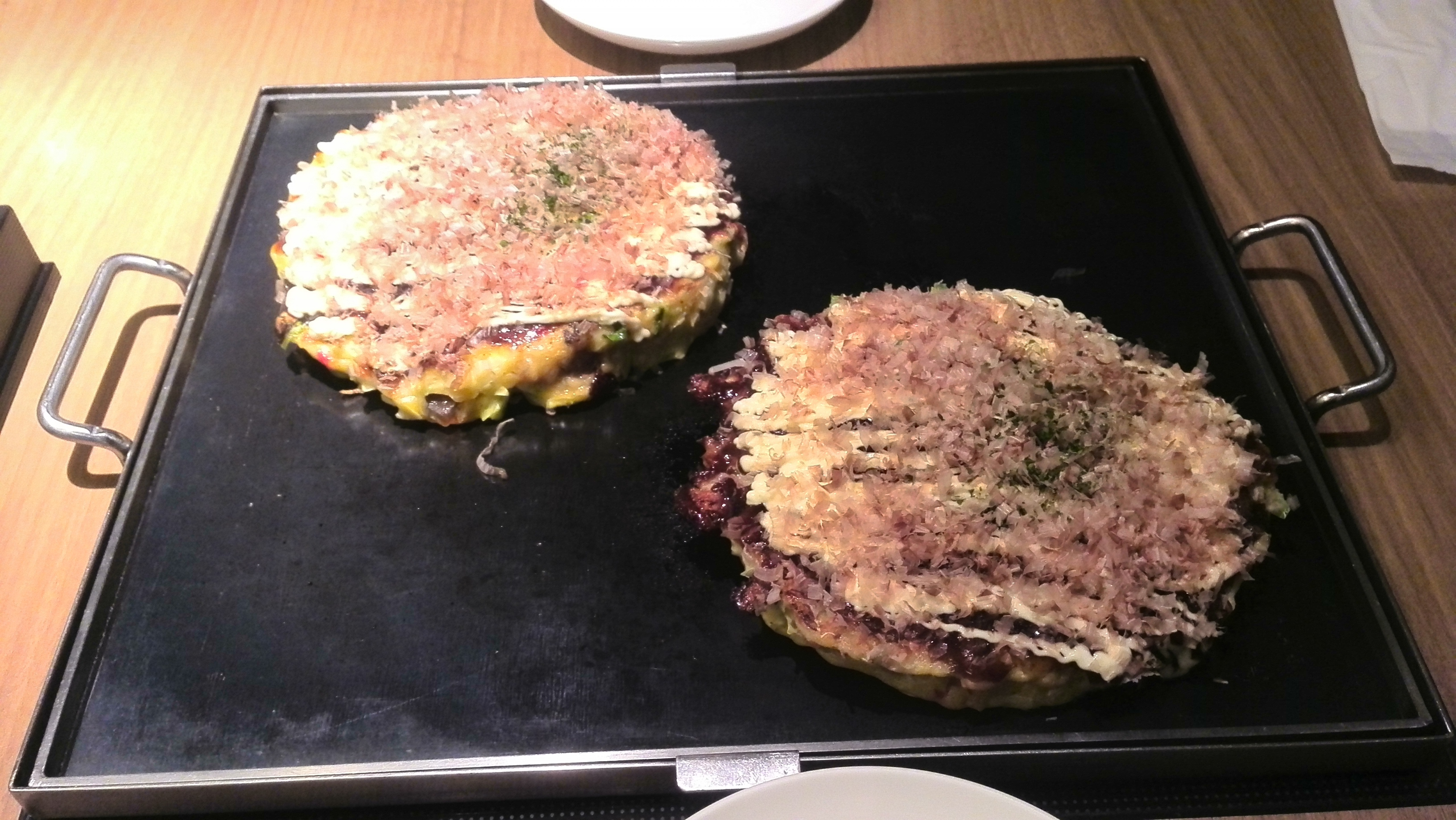 Okonomiyaki, Osaka style. Osaka, Japan.